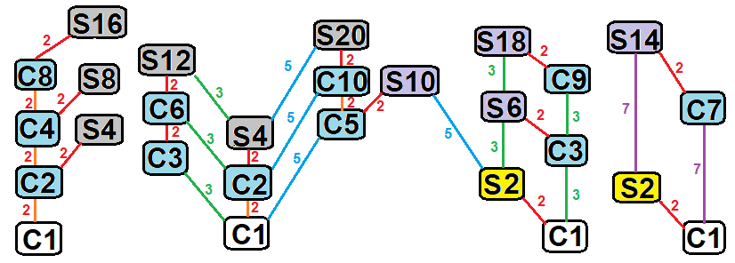 Rotoreflection subgroup tree